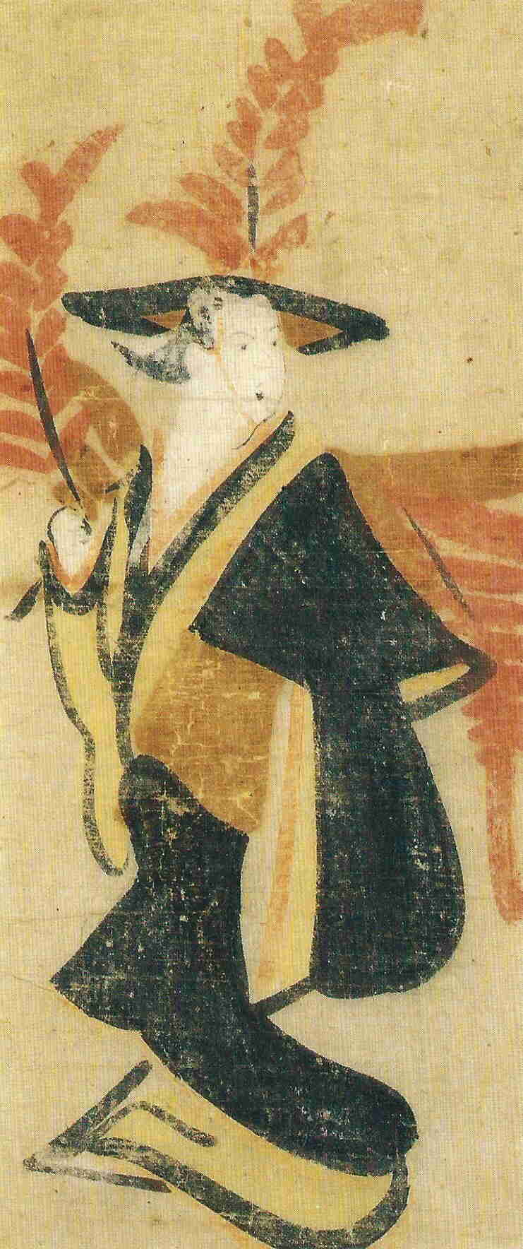 Otsu-e: Wisteria daughter